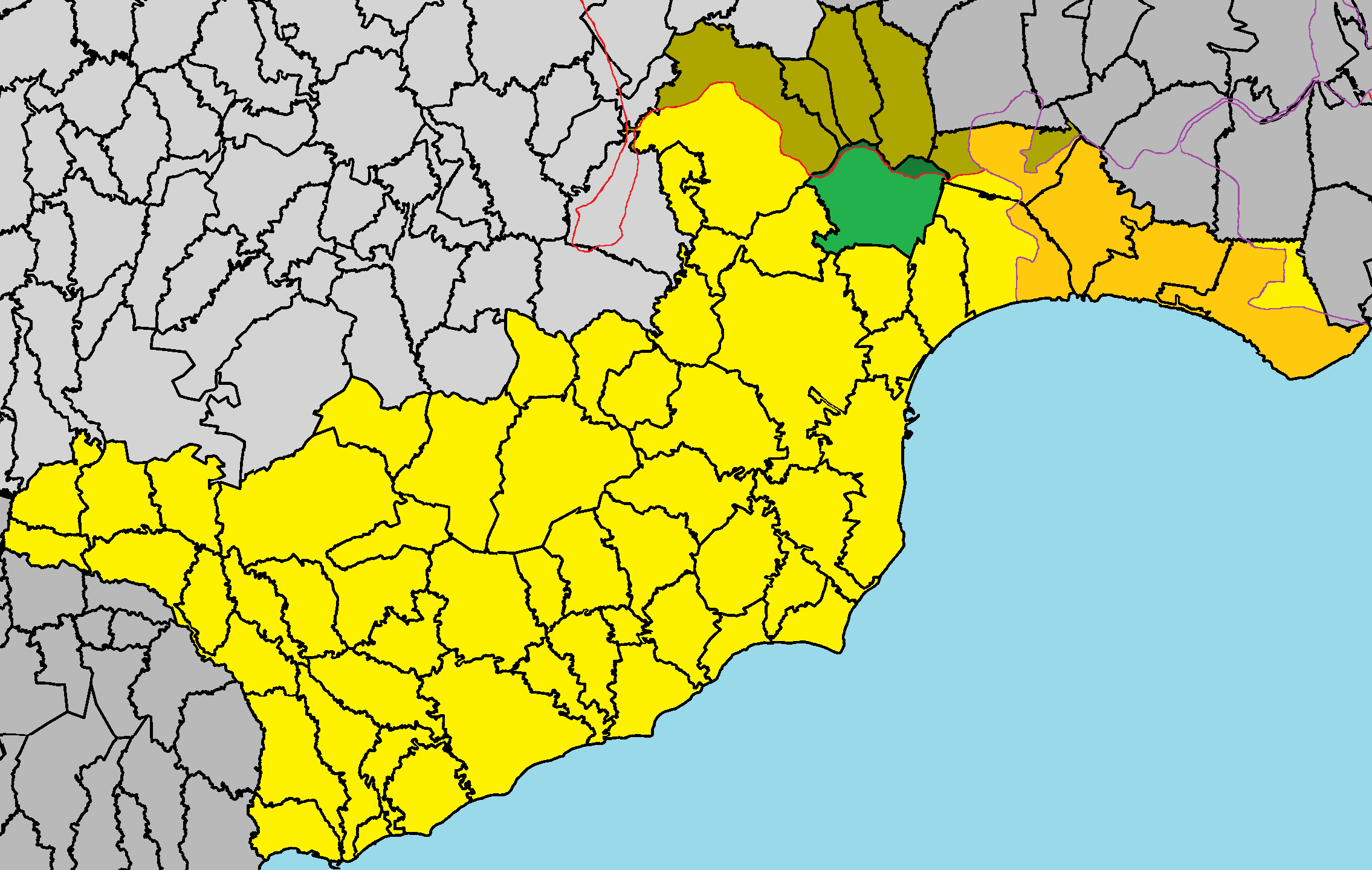 Troulloi in Larnaca District.